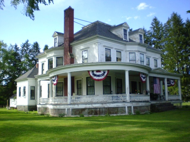 Holden B. Mathewson House — South Otselic, Chenango County, New York. Built by a partner of Gladding Fishing Line, Holden Mathewson in 1908/1909. On the National Register of Historic Places in Chenango County.